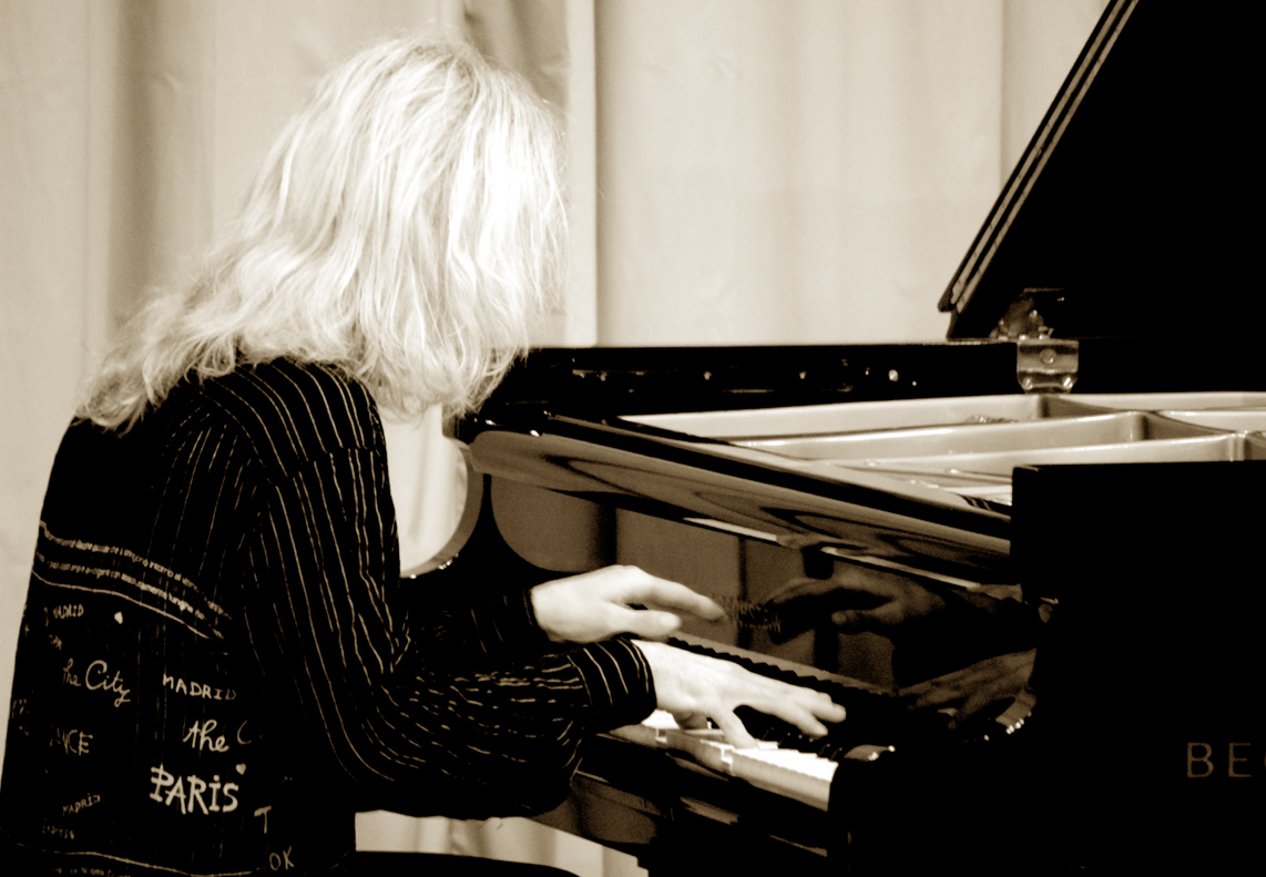 The performance of the serbian pianist Nebojša Maksimović at the Gallery of the Serbian Academy of Sciences and Arts (May 26, 2016)